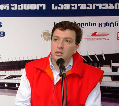 Mayor of Tbilisi, Gigi Ugulava, inaugurates the new project of railway stations, 2006.